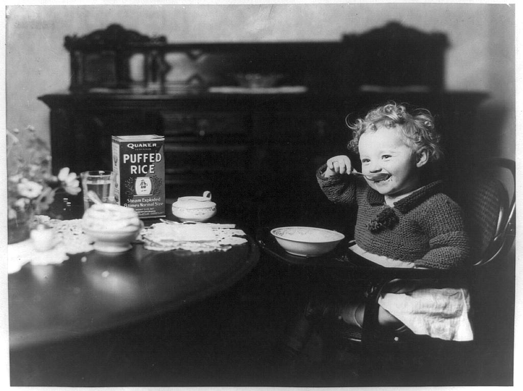 Child in high chair eating at dining room table.